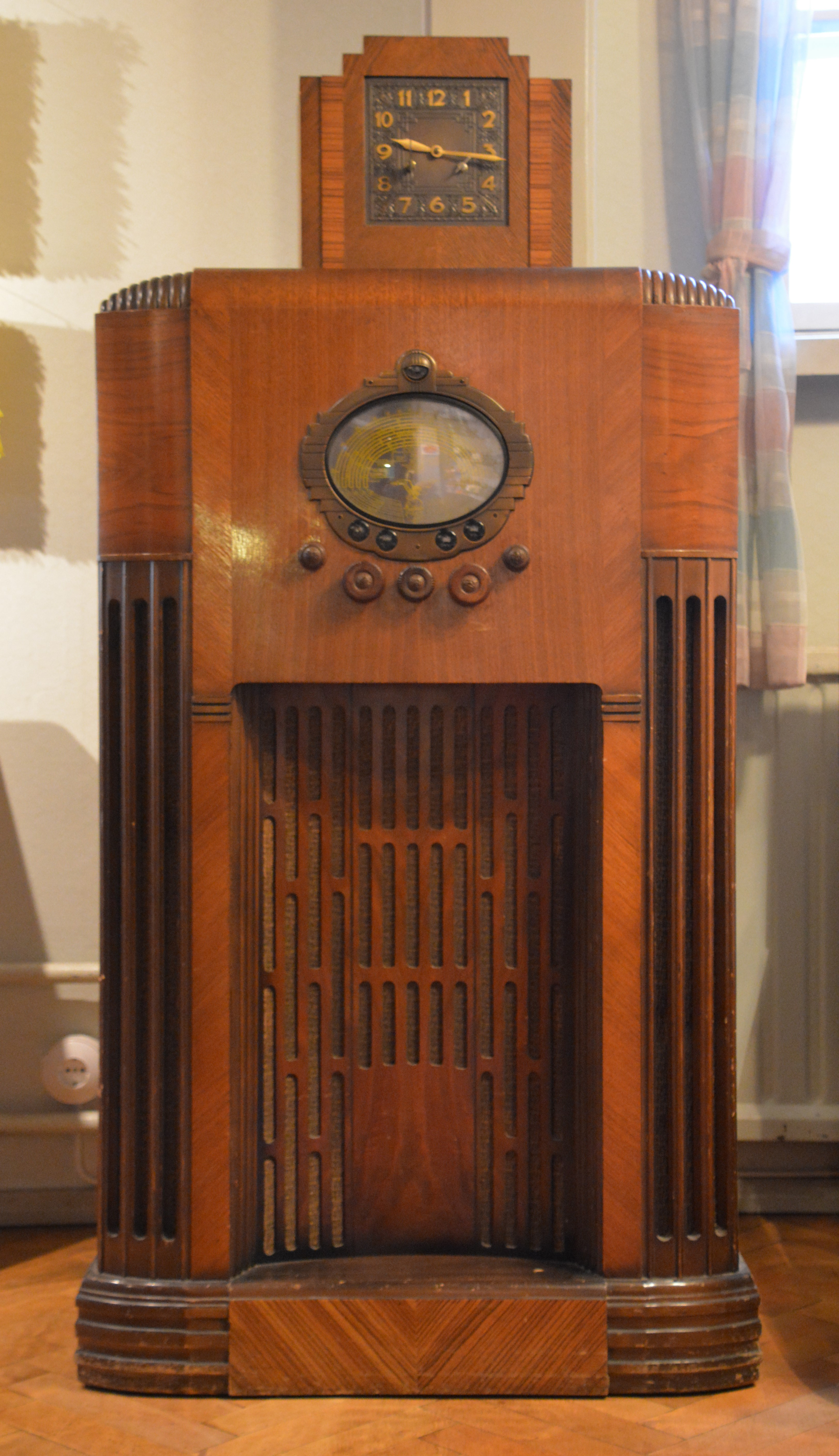 Luxary radio receiver, American,probably from the 1940s, in Villa Cooper, Järvenpää, Finland